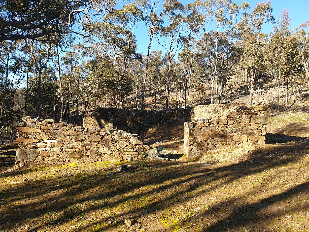 Battery plant ruins at the Quartz Roasting Pits Complex, Hill End NSW.